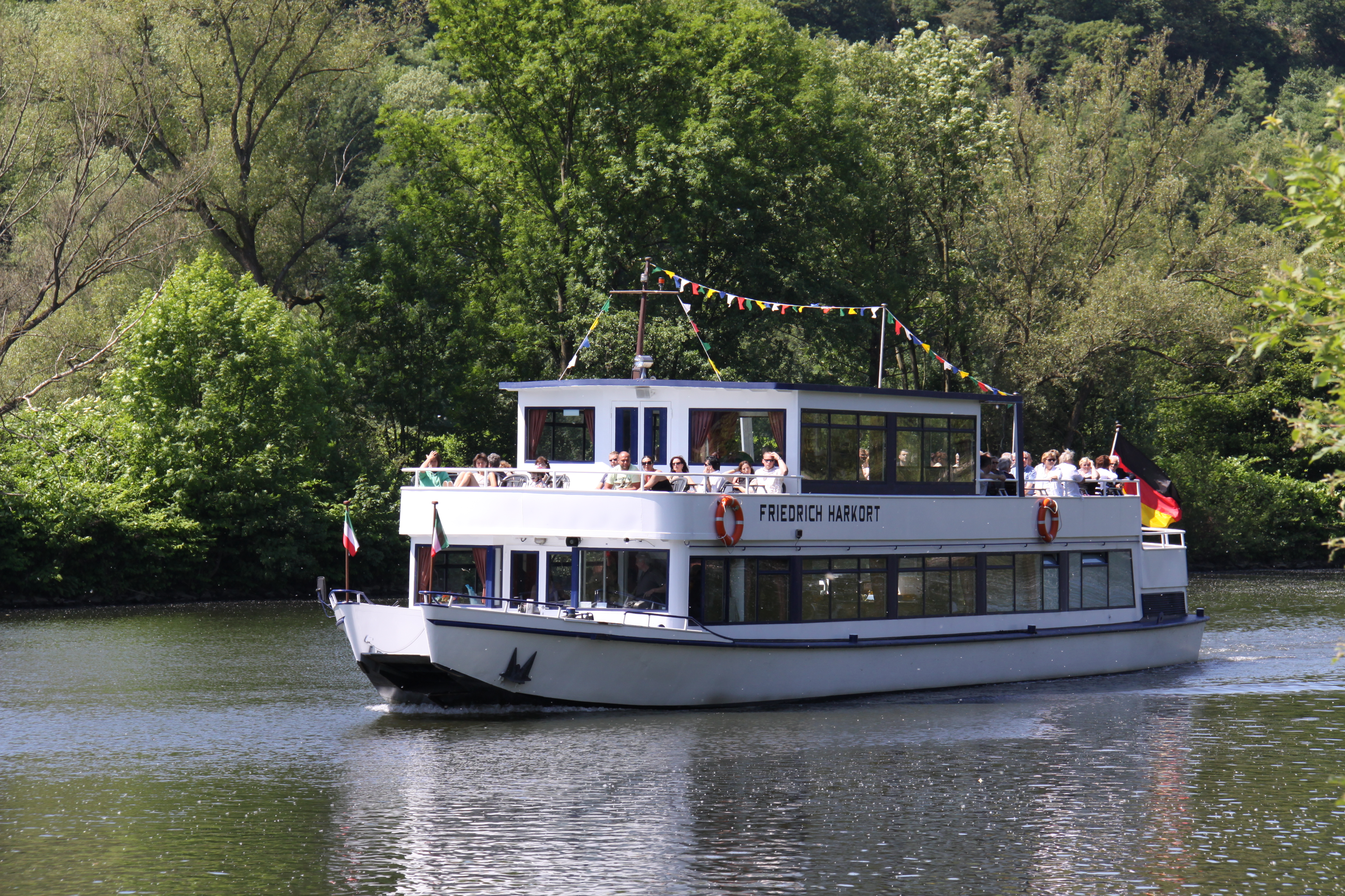 Passenger ship Friedrich Harkort on River Ruhr near Herdecke